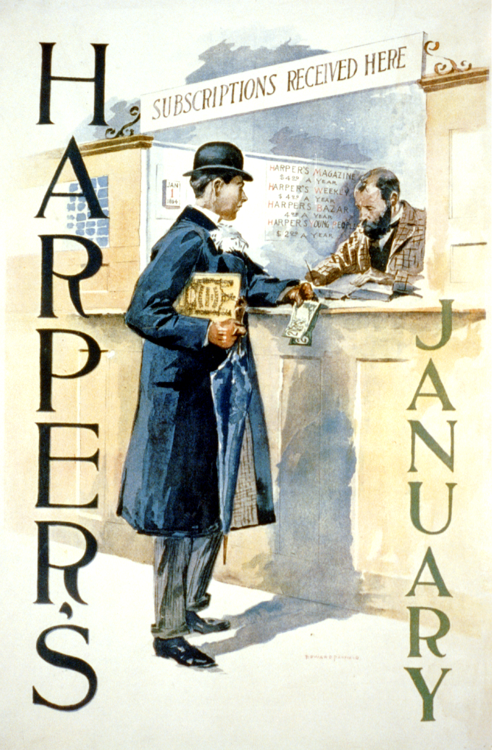 Well-dressed man holding Harper's New Monthly and 4 dollars standing at Harper's subscription counter, Jan. 1, 1894.